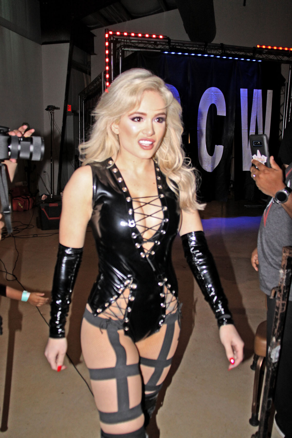 River City Wrestling RCW on February 22, 2019 in San Antonio with Gail Kim, Scarlett Bordeaux, Rebel, Katie Forbes, Barbi Hayden, Christi Jaynes and more.